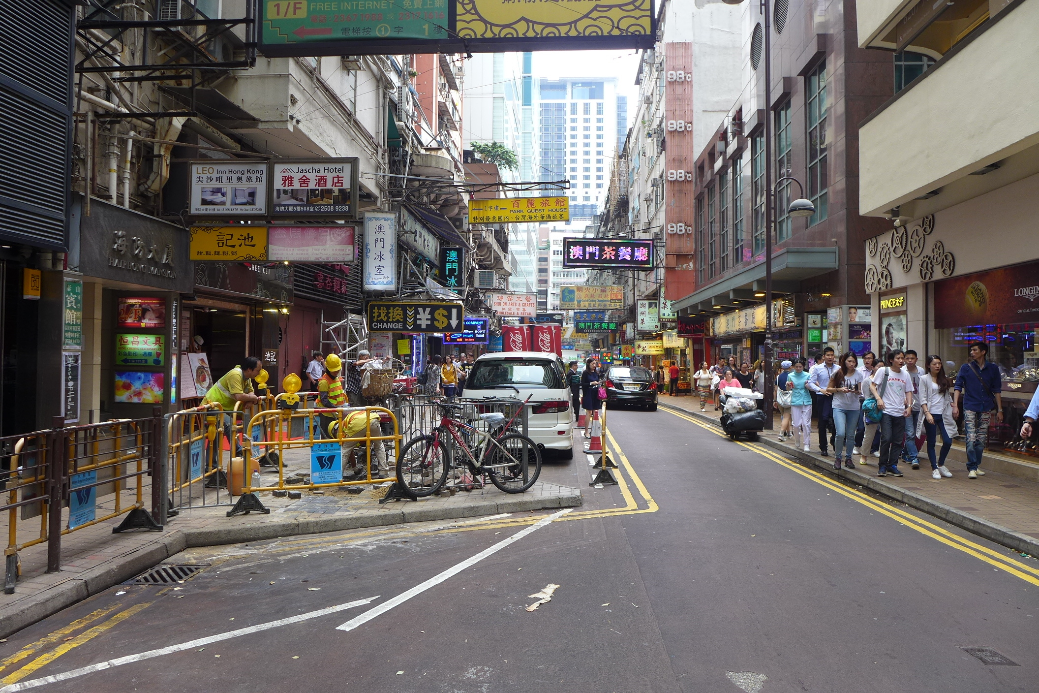 Lock Road